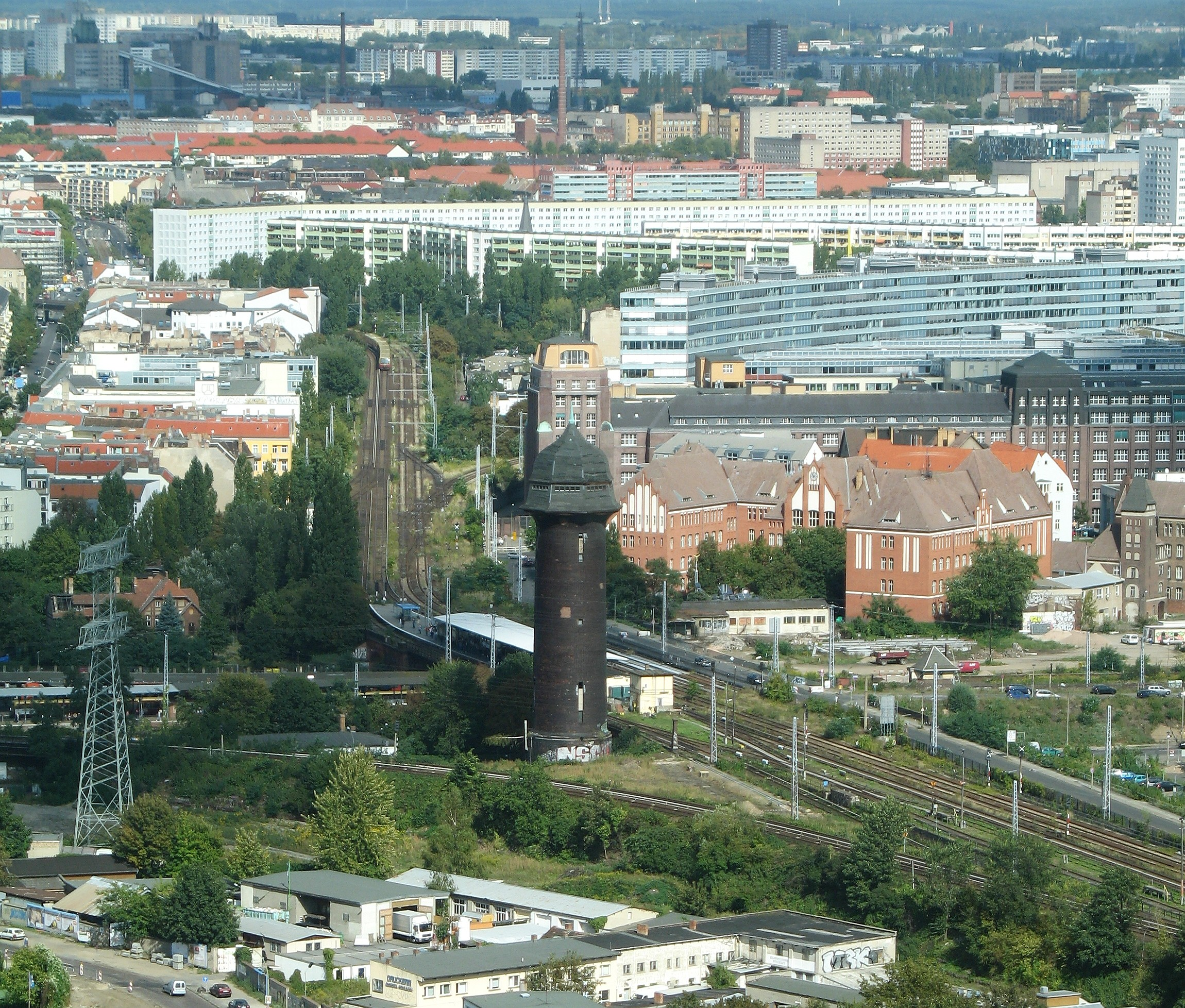 Rail crossover at Berlin's most busiest commuter transfer station Ostkreuz